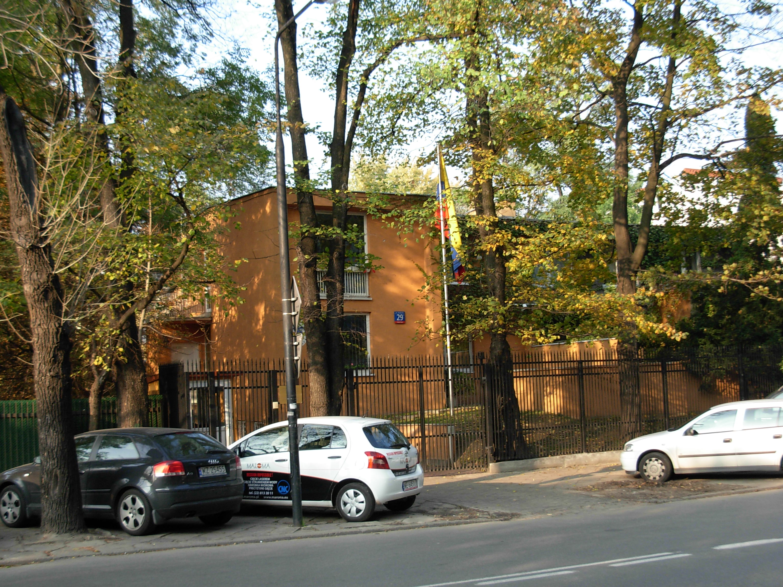 Embassy of Colombia in Warsaw